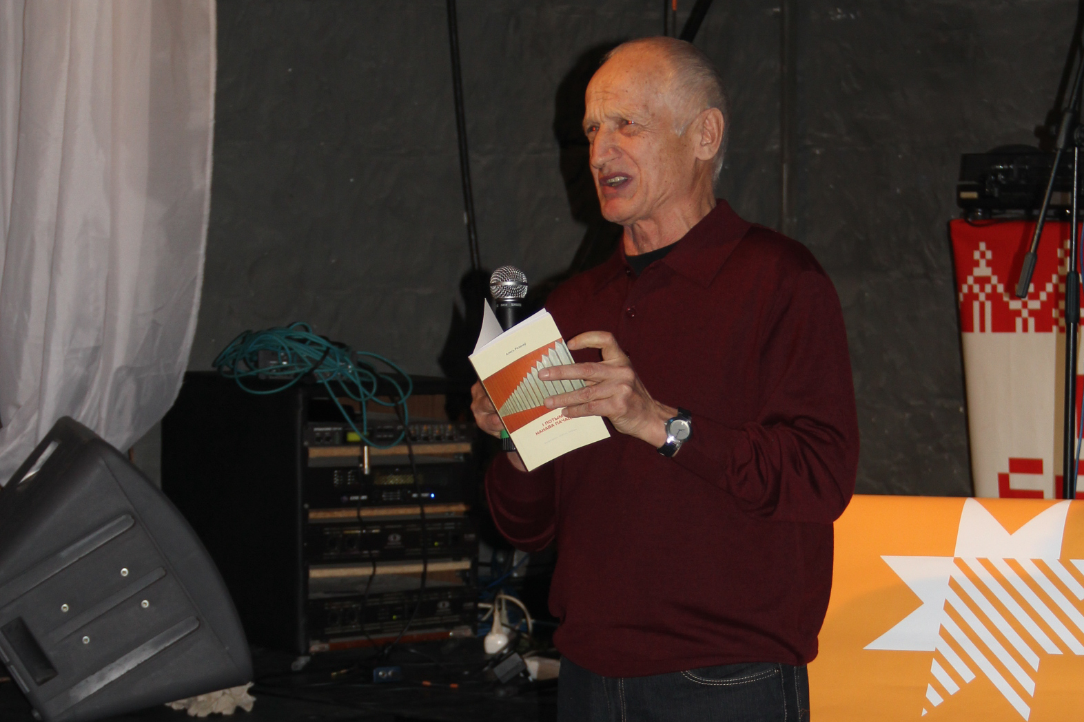 Ales Razanau, Belarusian poet and translator